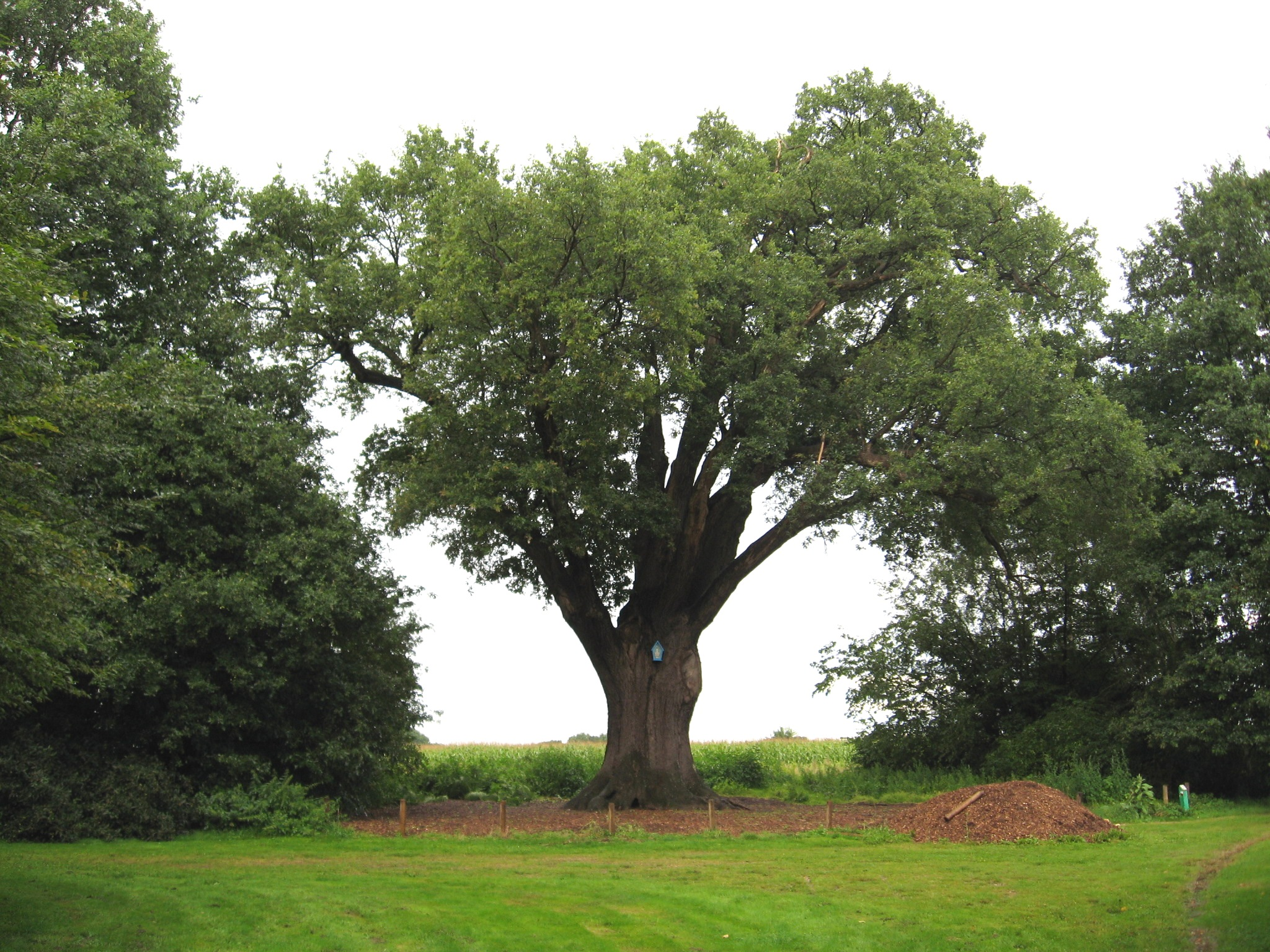 Oak of over 1000 years in Lummen, Limburg, Belgium